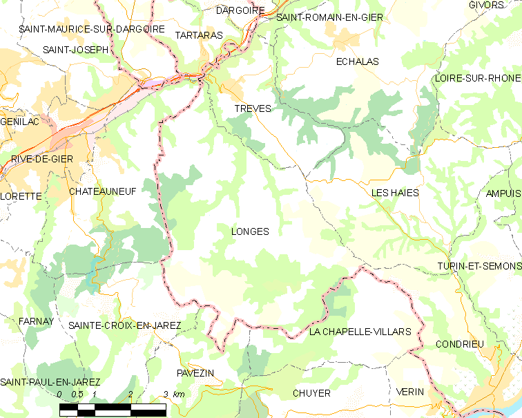 Map of French municipality